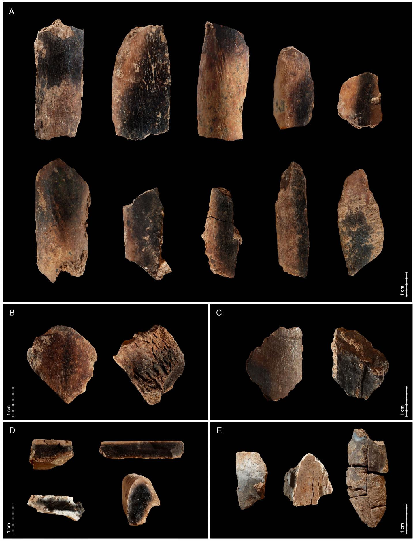 Burned animal bones from Qesem Cave, Israel